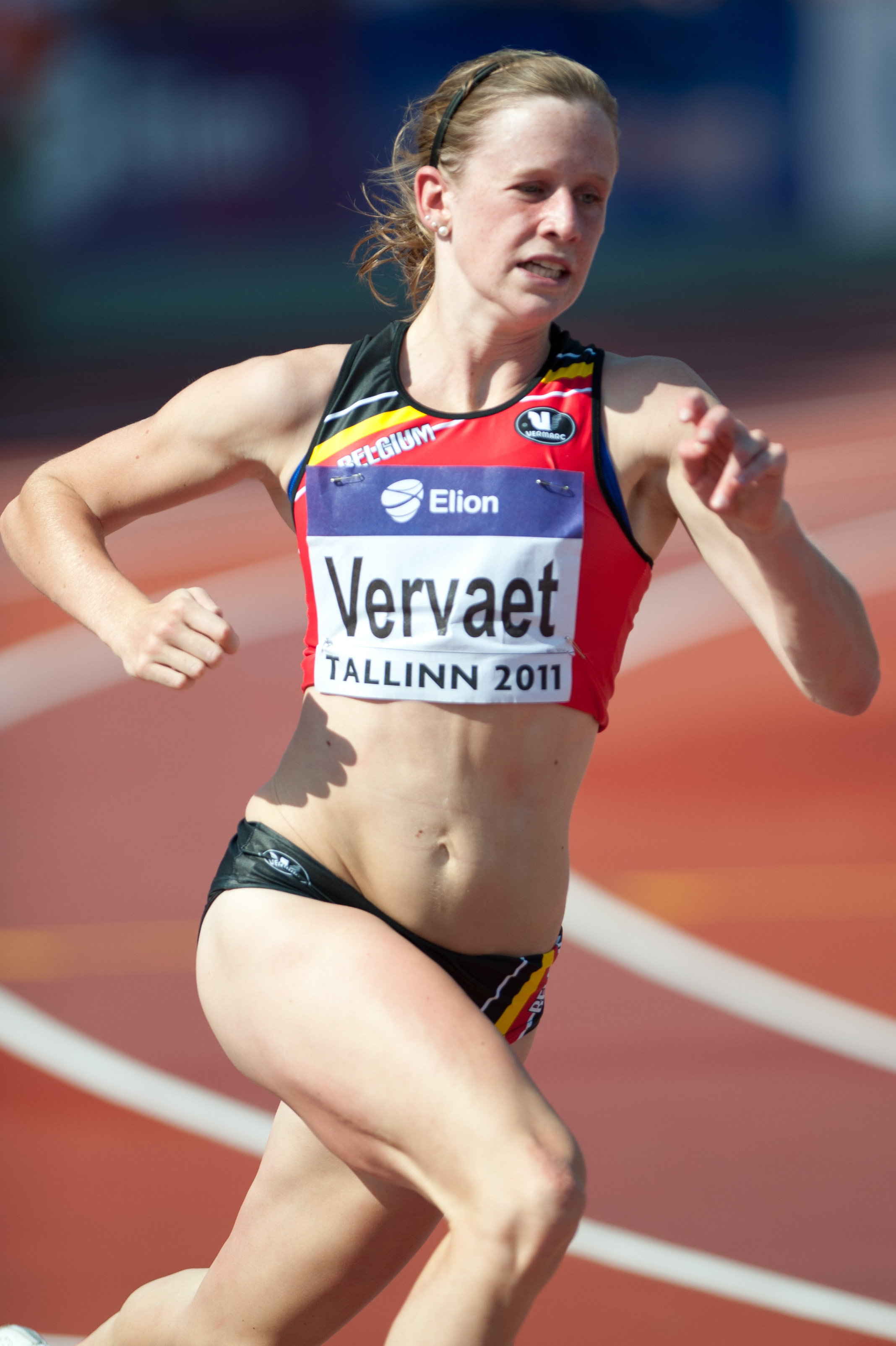 Ime Vervaet at the 2011 European Championships voor junior athletes in Tallinn.